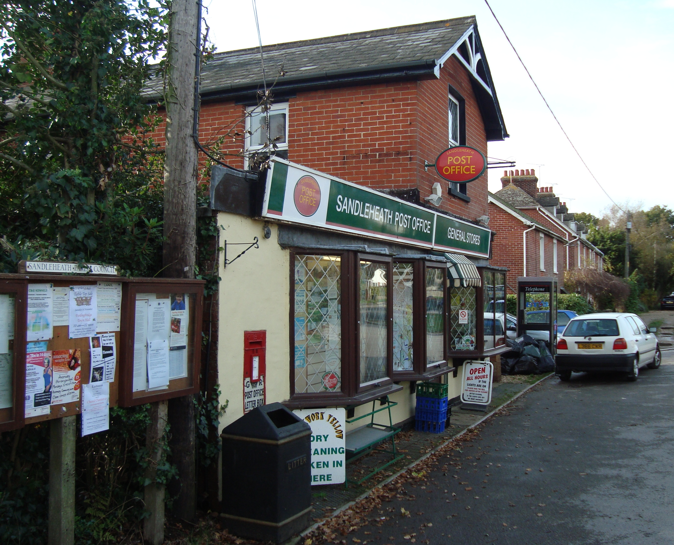 SP6 204 Sandleheath Post Office ...